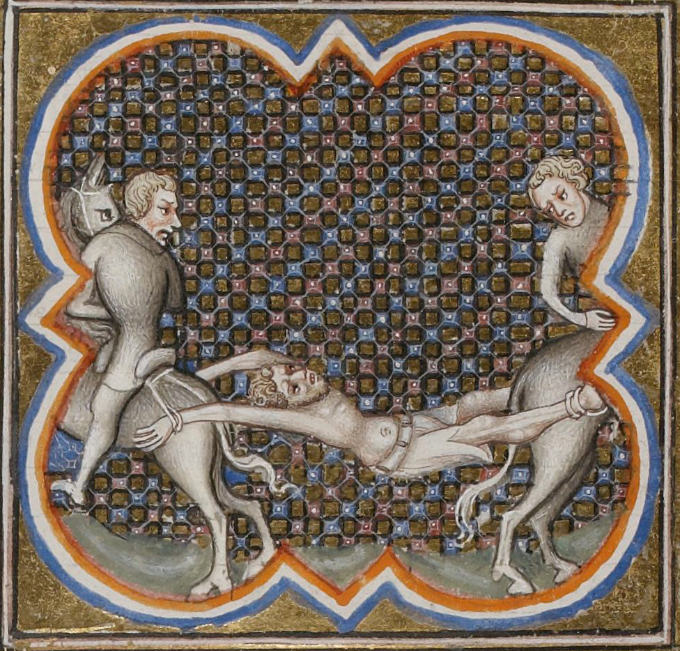 Death Of Ganelon. From a manuscript of the Grandes Chroniques de France, Paris, BNF, Fr. 2813, fol. 124r]